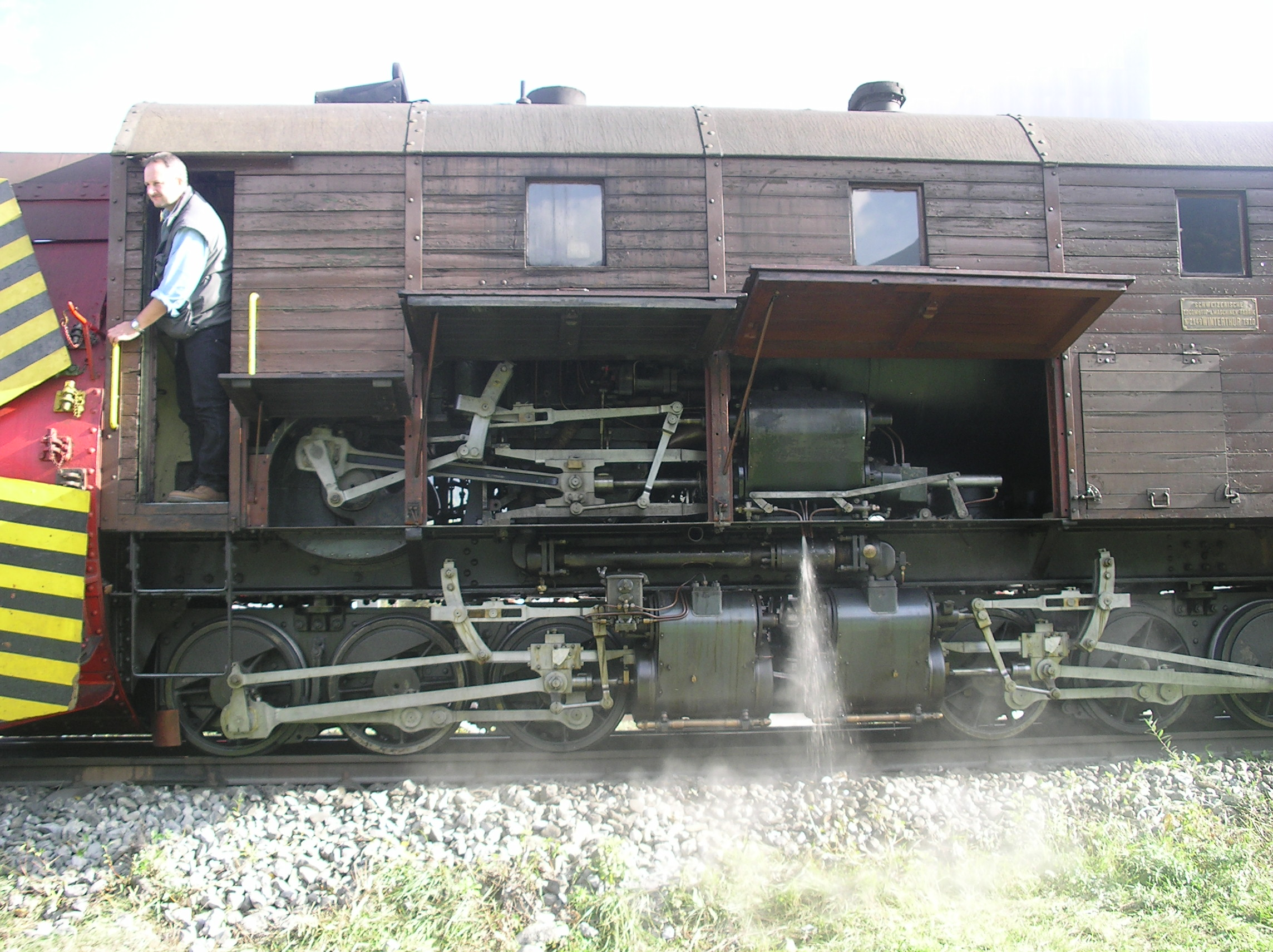 RhB's Rotary Snowplough Xrotd 9213: Steamengine for blade wheel above, driving bogies according Meyer below